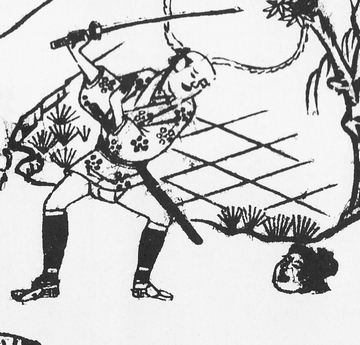 "Rokurokubi in Echizen Province" from the Shokoku Hyakumonogatari